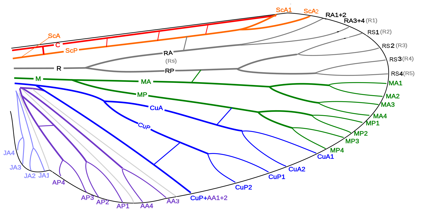 A diagram of the average venation of insect wings